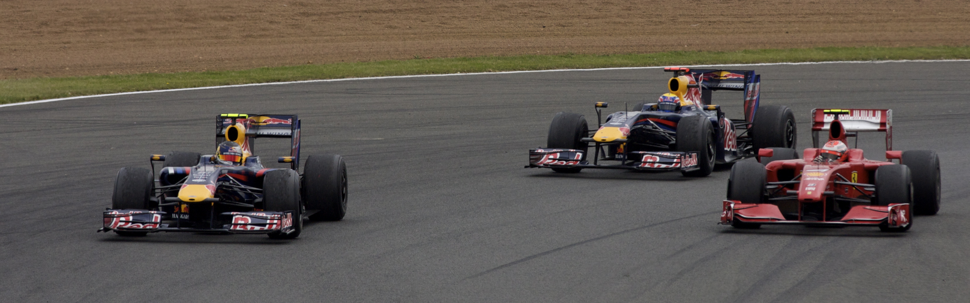 (Left to right) Sebastian Vettel, Mark Webber and Kimi Räikkönen at the 2009 British Grand Prix, Silverstone, UK.